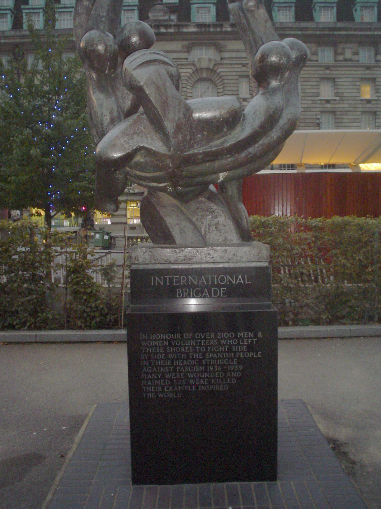 International Brigades Memorial, Jubilee Gardens, London. Monumento a las Brigadas Internacionales, Jardines Jubileos, Londres. Picture taken by me